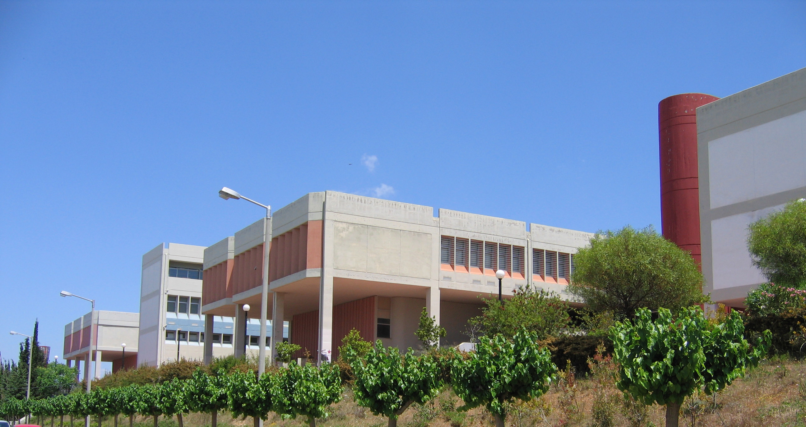 Buildings of the school of Mechanical Engineers, NTUA campus at Zografou, Athens, Greece